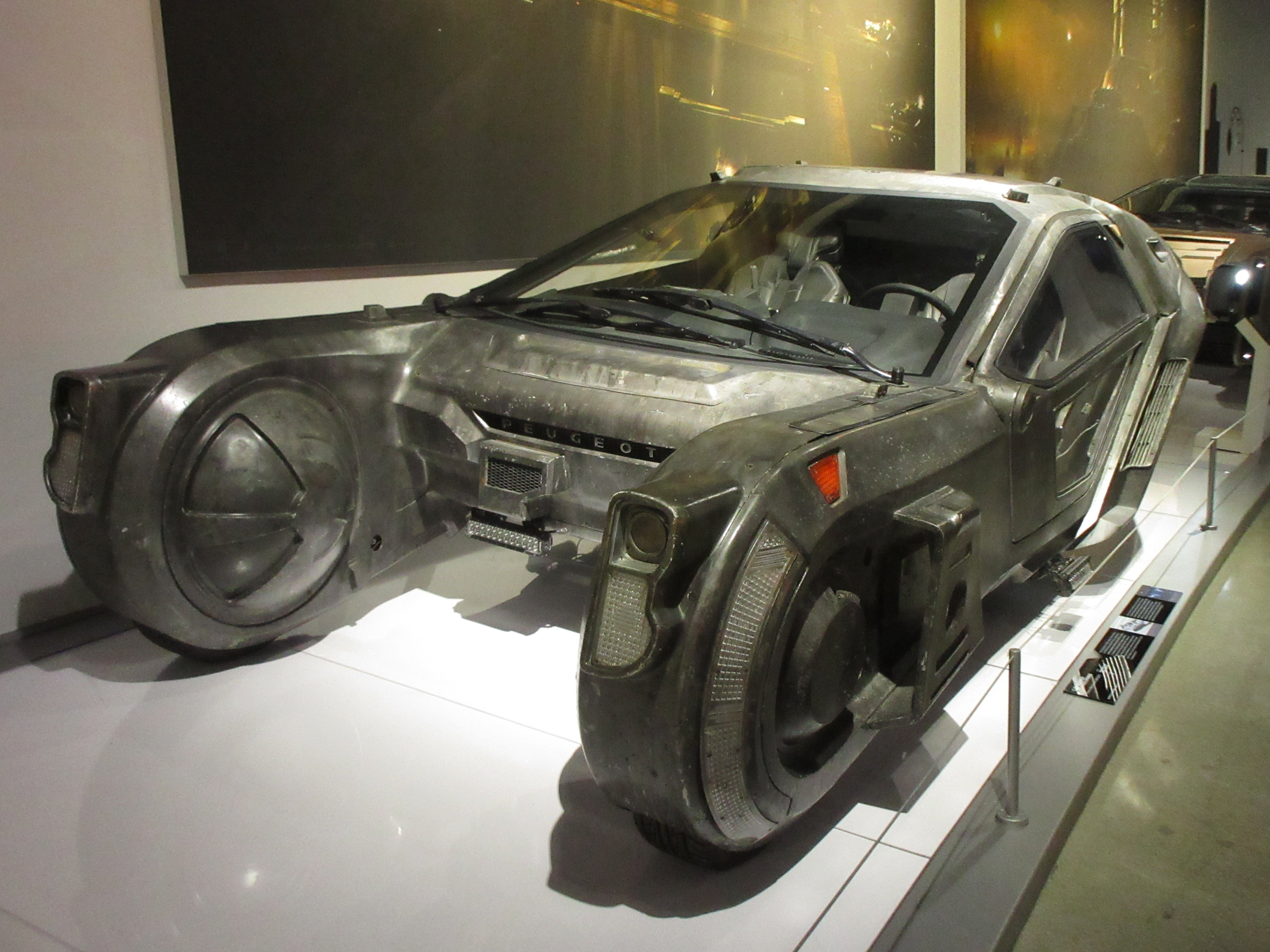 K's Spinner, designed by George Hull for Blade Runner 2049, at the Petersen Museum